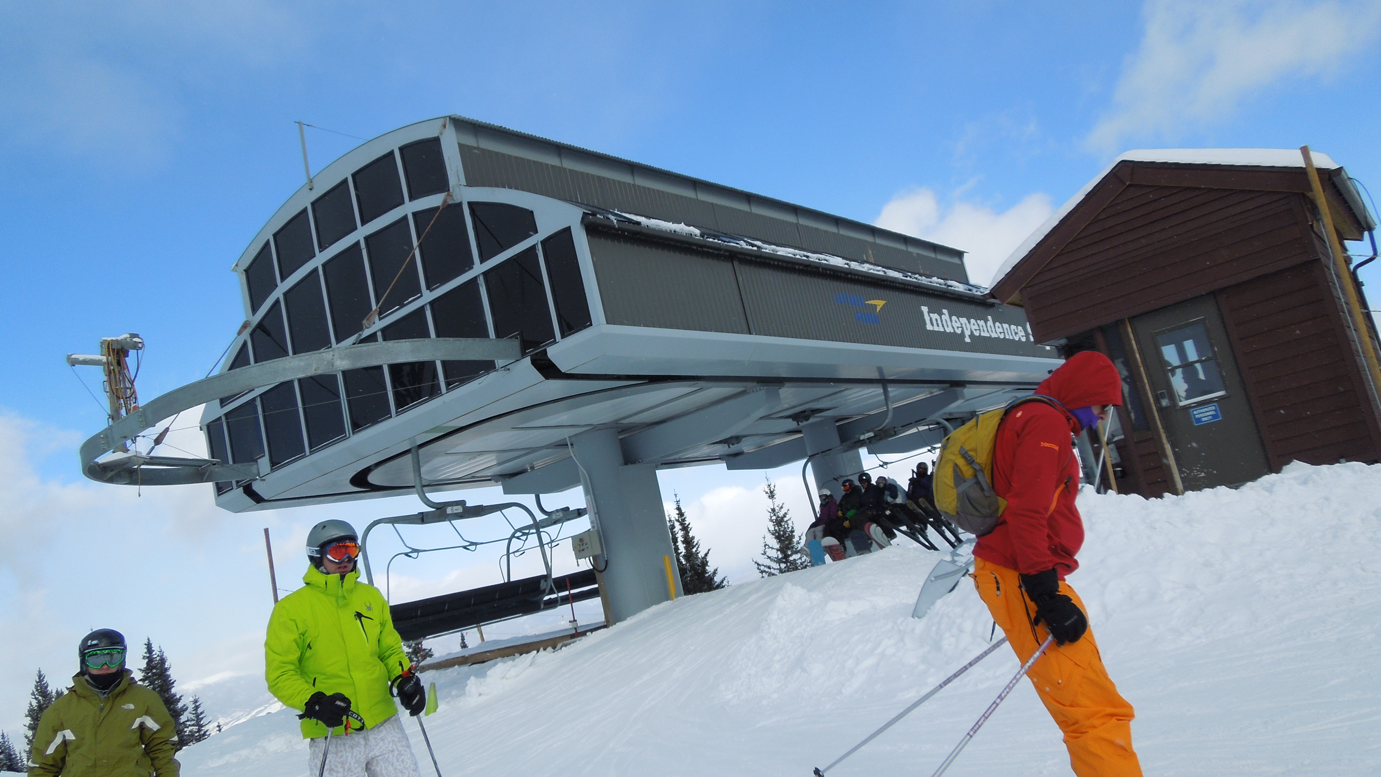 Independence SuperChair at Breckenridge Ski Resort. DReifGalaxyM31 (talk) 14:04, 22 October 2013 (UTC)